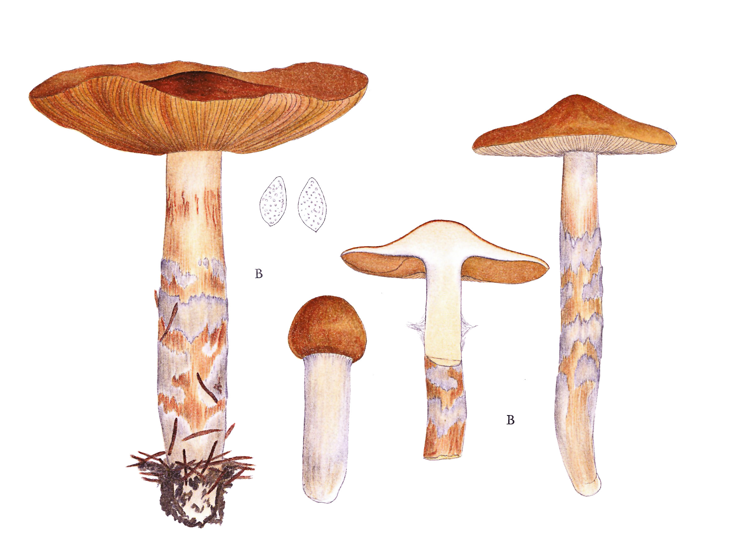 Jakob E. Lange: Flora agaricina Danica. Vol. 3; TAB. 88 B B. Cortinarius collinitus Description of Cortinarius collinitus by Lange.